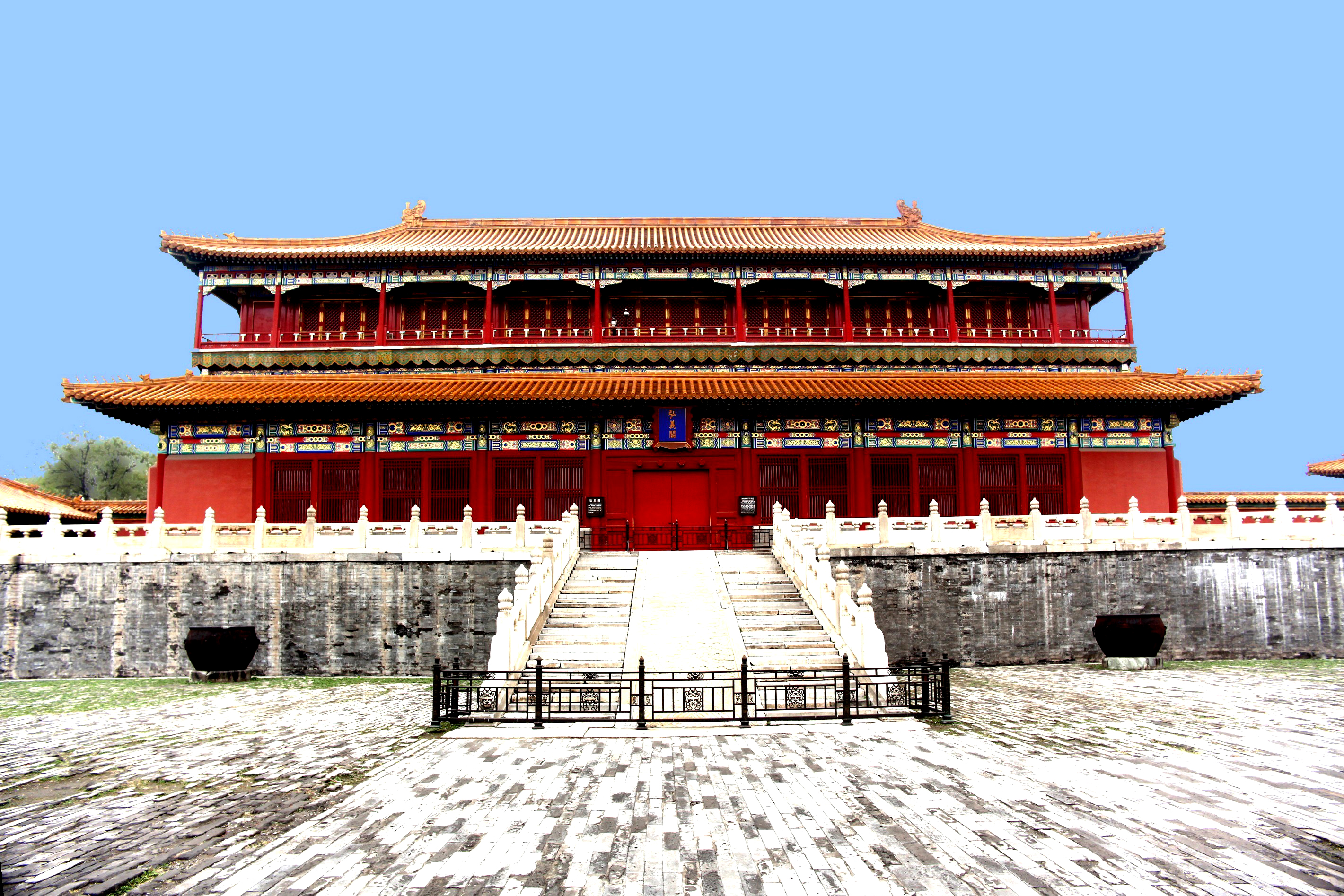 Hong Yi building in Forbidden City